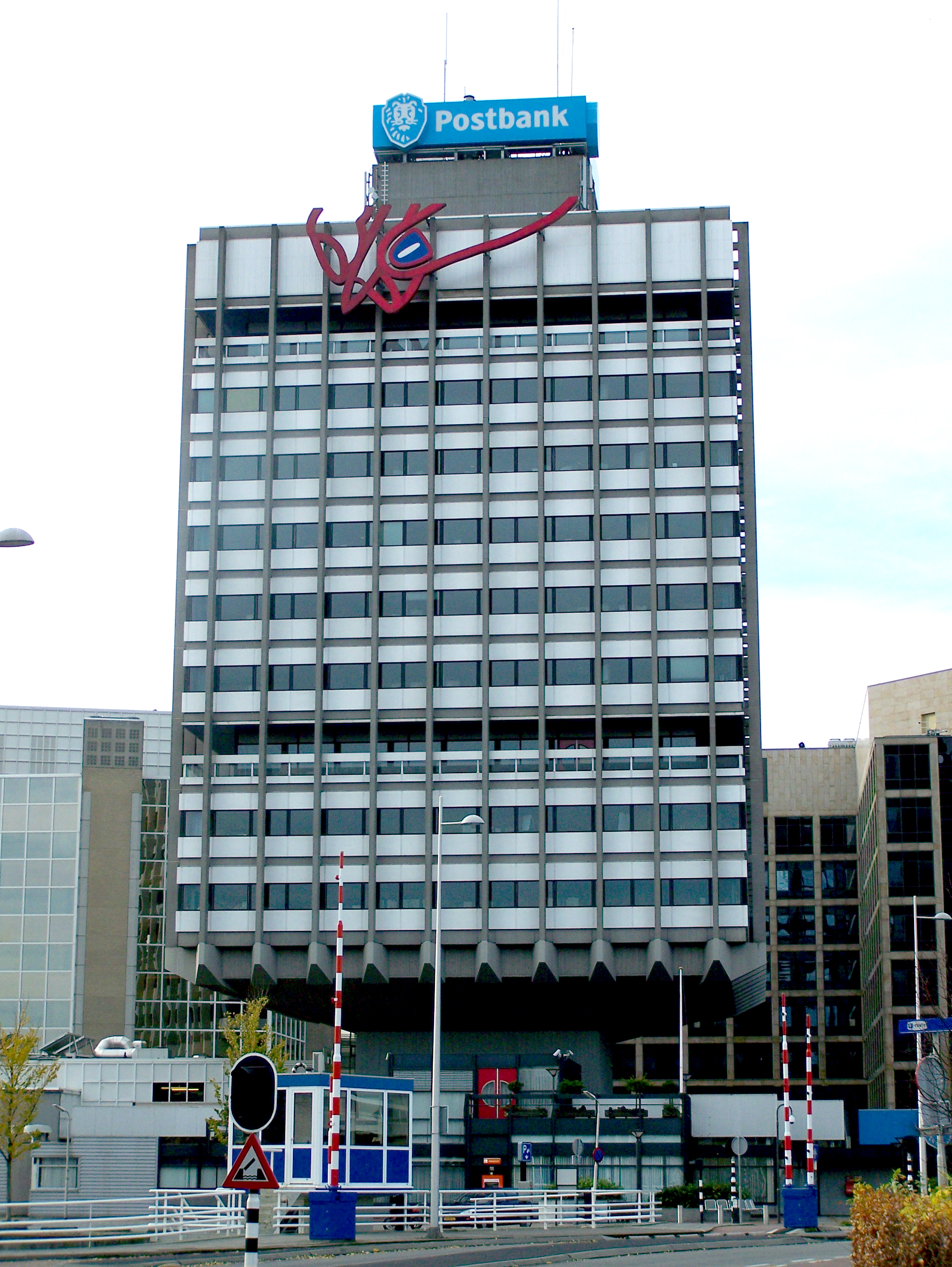 Sculpture "Schrijvende hand" writing hand by Marte Röling in 1975. Placed on top of the Postbank building at the Tesselschadestraat in Leeuwarden. The building is a design by Abe Bonnema dating from 1974.